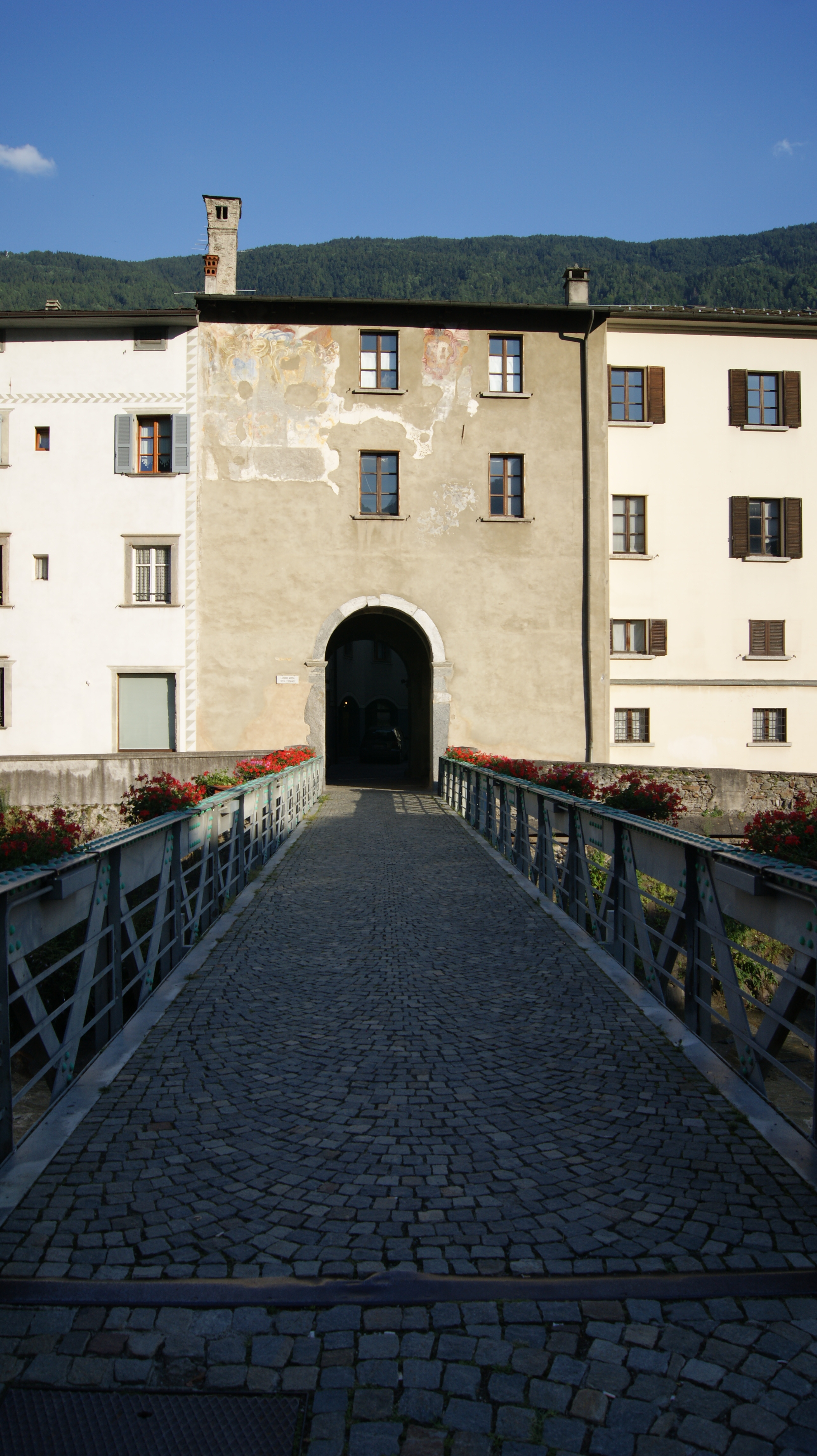 Town fortification of Tirano, Porta Poschiavina.